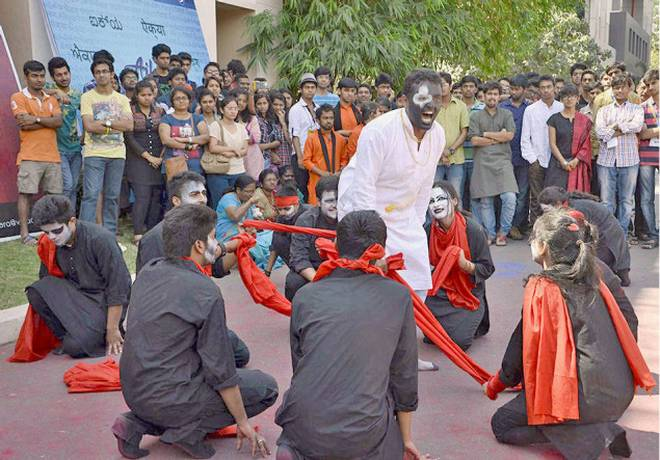 social cause